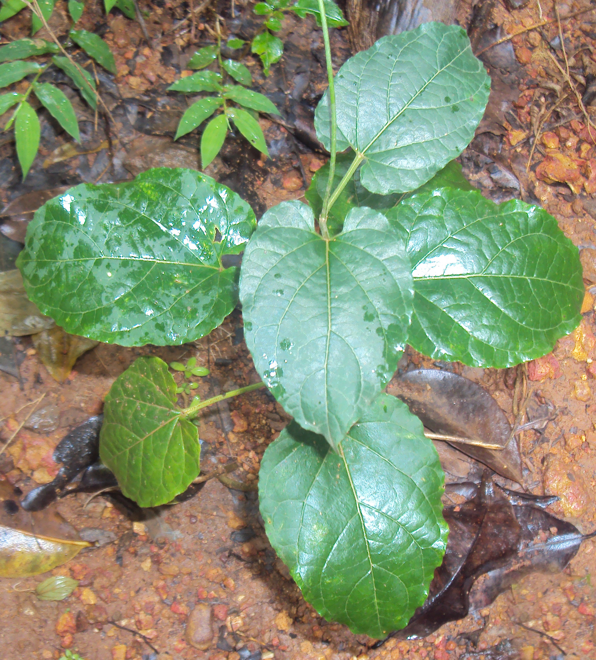 holostemma annulare leaves. അടപതിയൻ